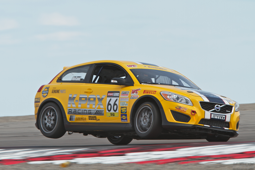 Volvo C30 Touring Car at Miller Motorsports Park